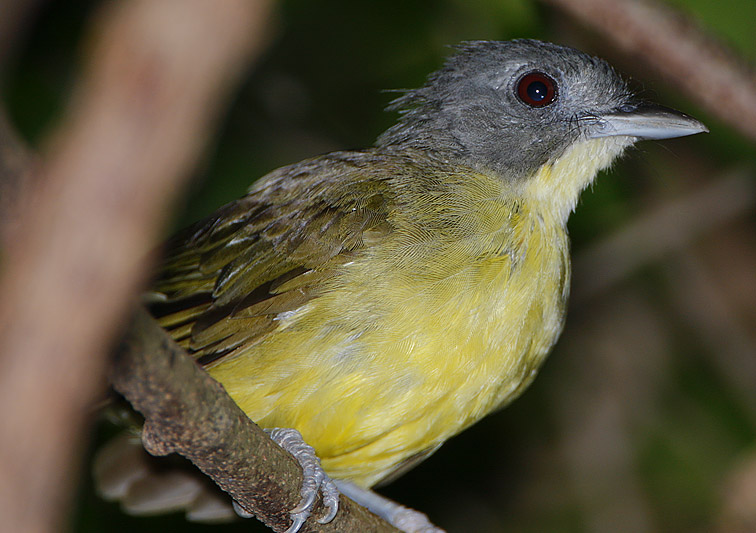 Image taken at Abuko, The Gambia. A skulking resident of Gallery forest.